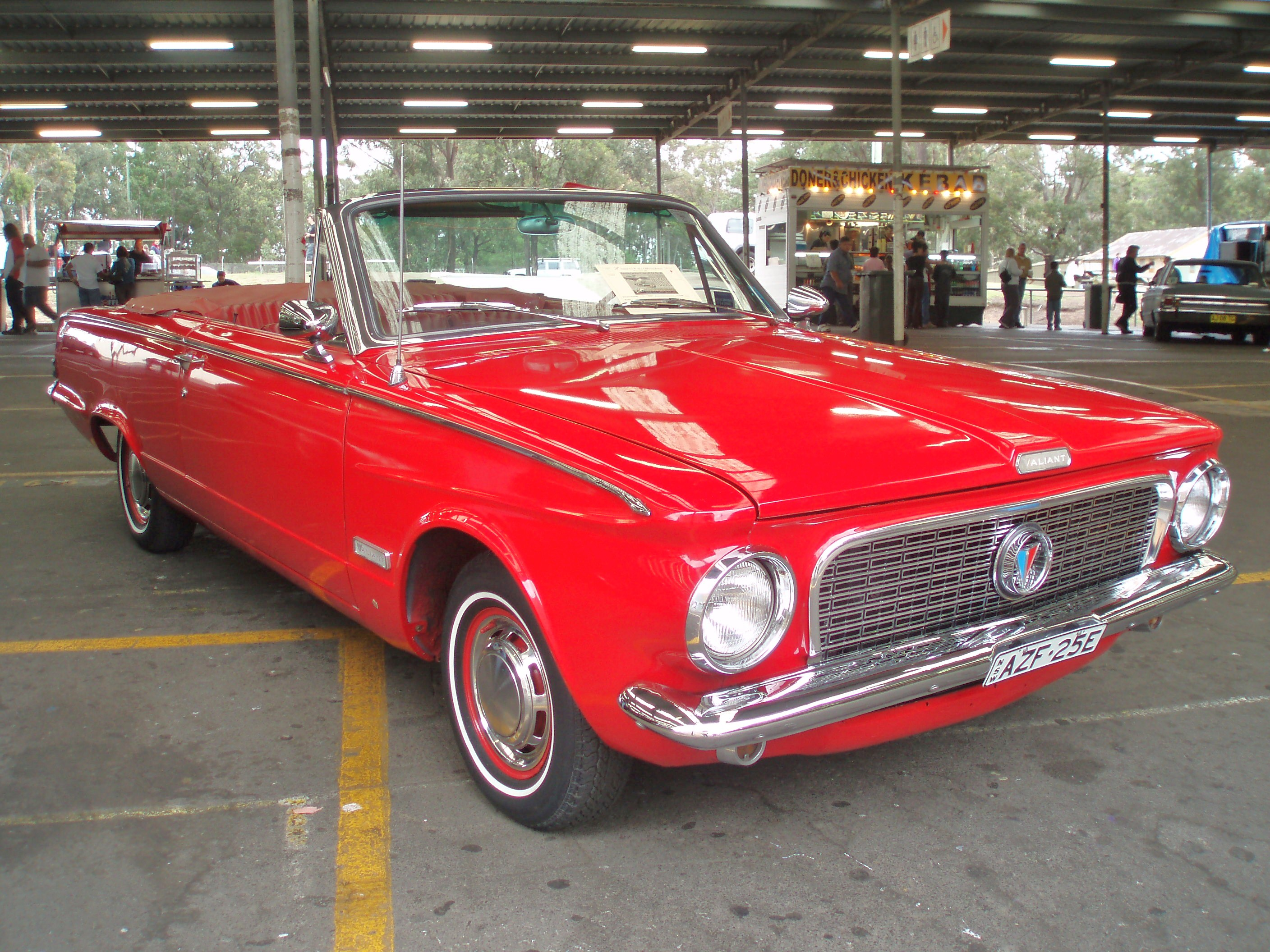 1963 Plymouth Valiant V-200 Signet convertible. Taken at the 2006 New South Wales All Chrysler Day, held at Fairfield Showground, Prairiewood, Sydney.